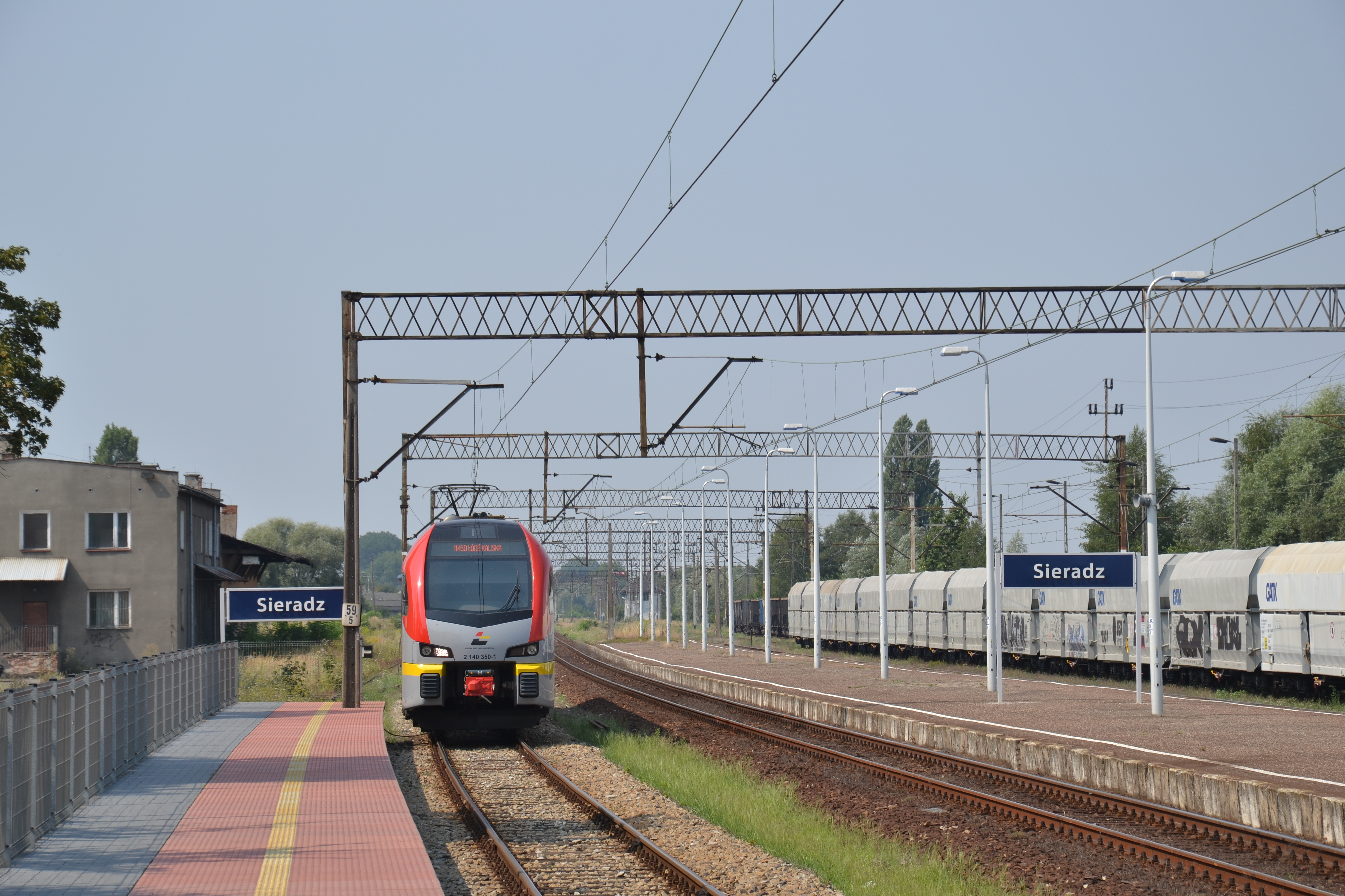 Flirt ŁKA na stacji w Sieradzu This photo was taken during Railway Wikiexpedition 2015 set up by Wikimedia Polska Association in cooperation with Fundacja Grupy PKP.You can see all photographs in category Wikiekspedycja kolejowa 2015.